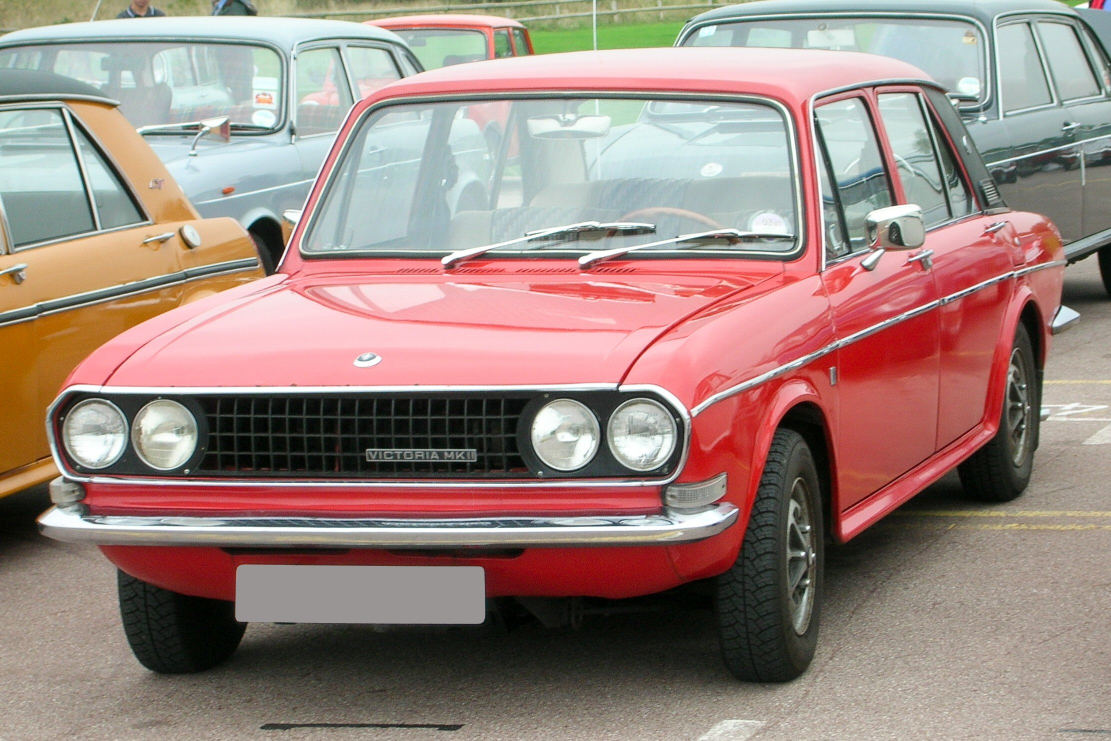 A 1973 Austin Victoria MKII De Luxe. Photographed at the Alec Issigonis centenary rally at the Heritage Motor Centre, Gaydon, UK. The Austin Victoria is, similarly to the Austin Apache, a derivative of the BMC's Austin/Morris/1100. The Victoria was built at the Authi car plant in Pamplona, Spain.